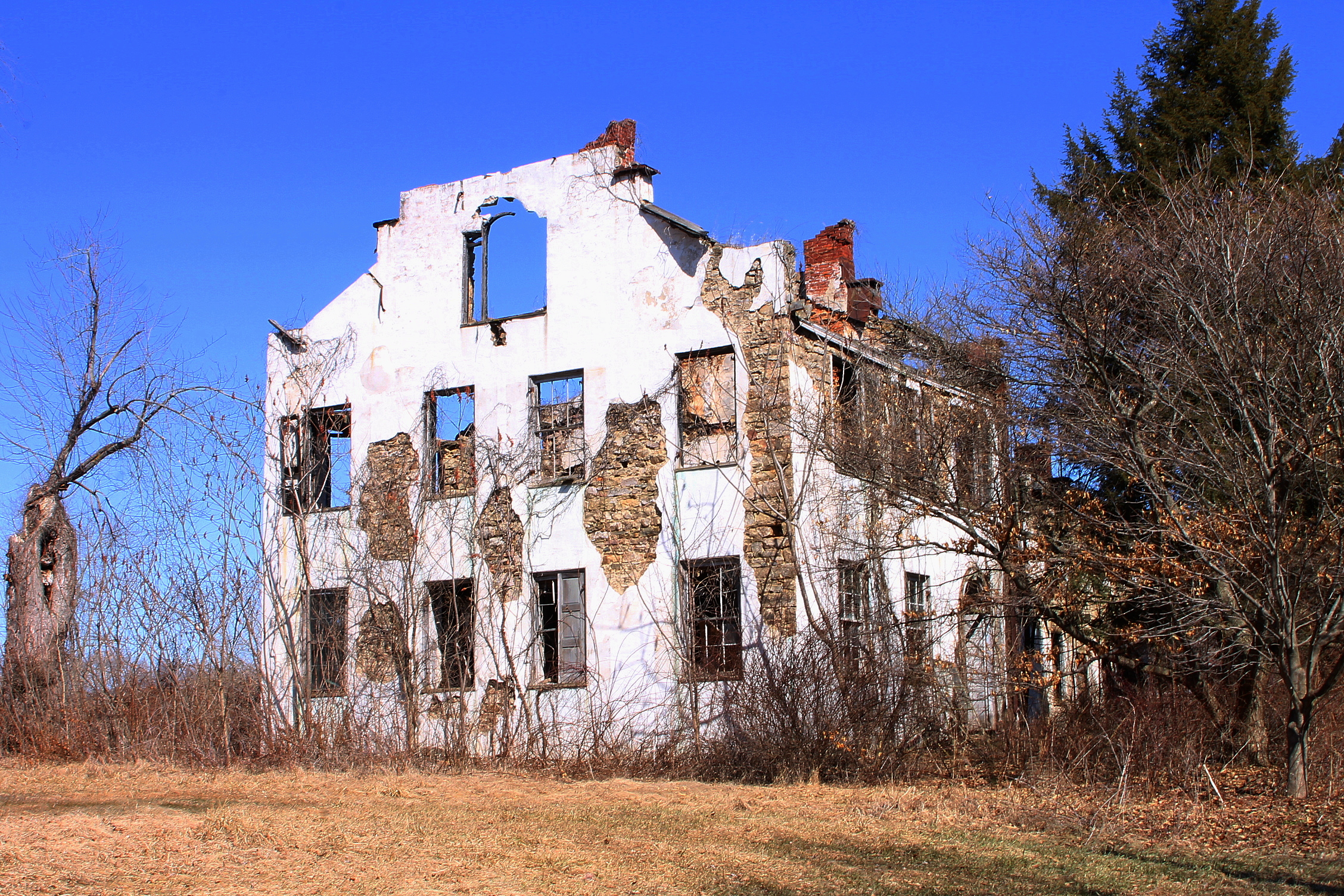 Boyd Station Mansion in Rush Township, Northumberland County, Pennsylvania. Burnt down during renovations and then abandoned